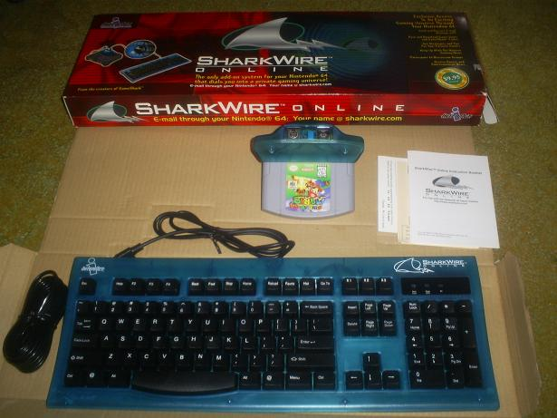 Photoghraph of SharkWire Online packaging with Super Mario 64 properly inserted into back of cartridge.